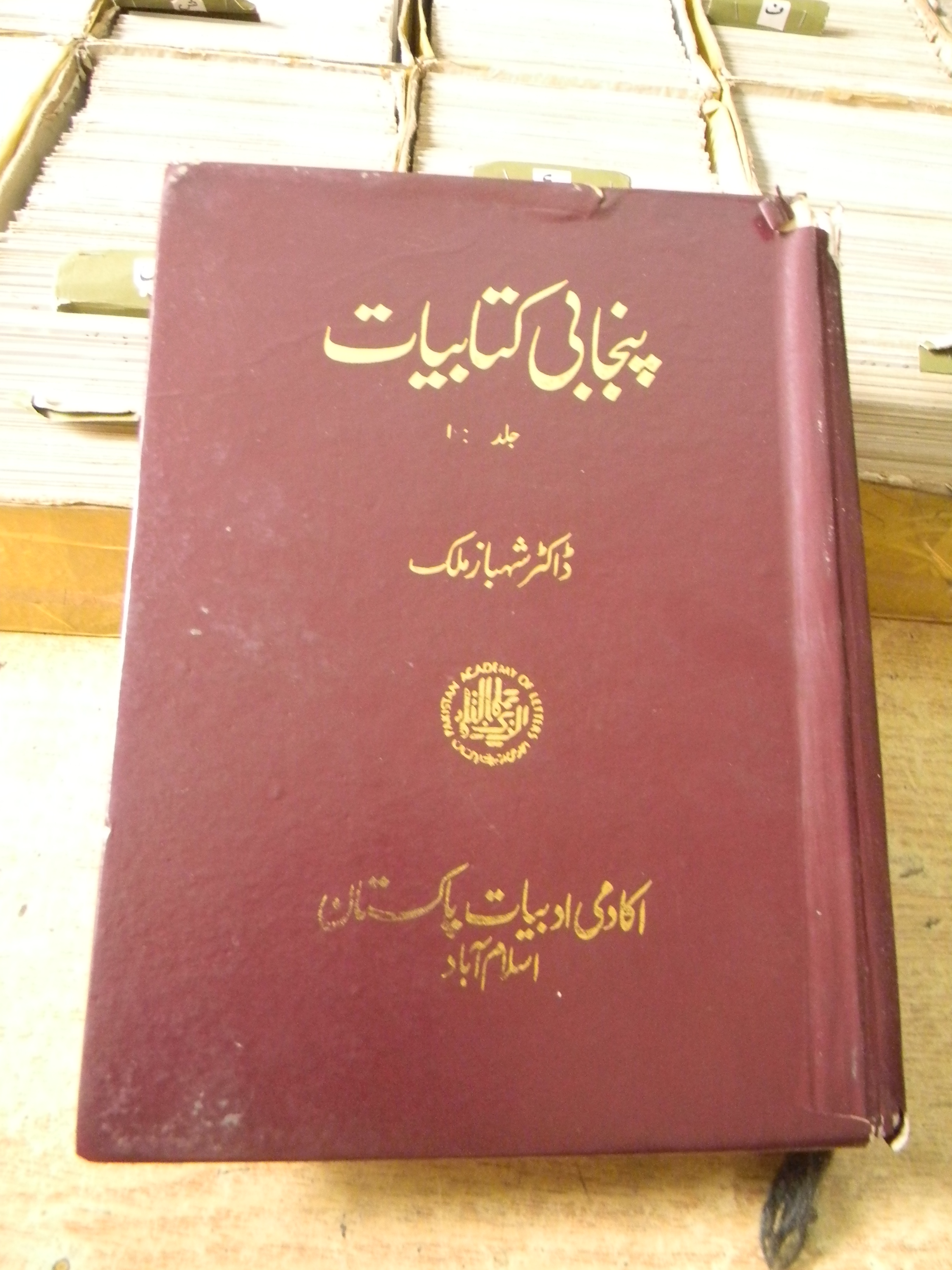 Punjabi Kitabiyaat, a book on Punjabi bibliography by Dr Shahbaz Malik